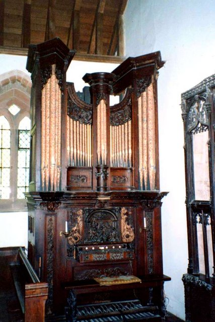 Organ at Brownsover, near to Newbold on Avon, Warwickshire, Great Britain. In the church of St Michael and All Angels at Brownsover (now in the care of the Churches Conservation Trust) is this Chair Organ which was formerly in the old chapel of St John's College, Cambridge. It dates from after the Restoration of 1660 and was considered by Pevsner to be a German instrument, though Clutton & Nilland ascribe it probably to Thomas Thamar. Some of the elaborate carved woodwork may have come from other sources, probably Flemish.